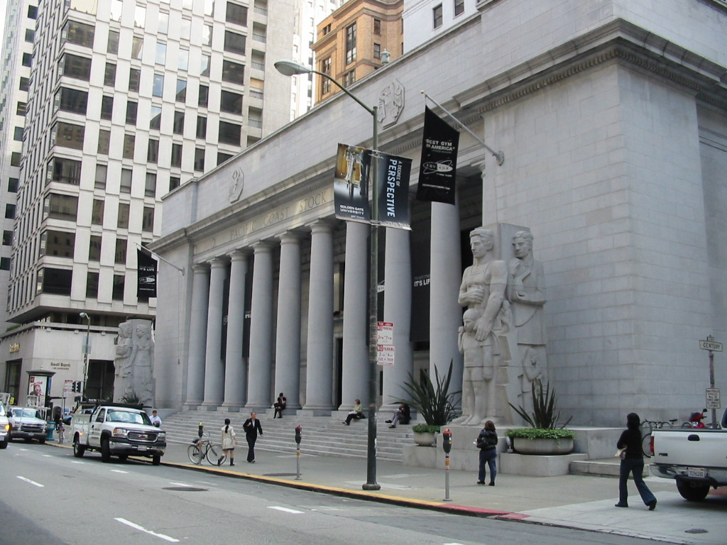 Photograph of the former San Francisco Stock Exchange building on 301 Pine, San Francisco, California